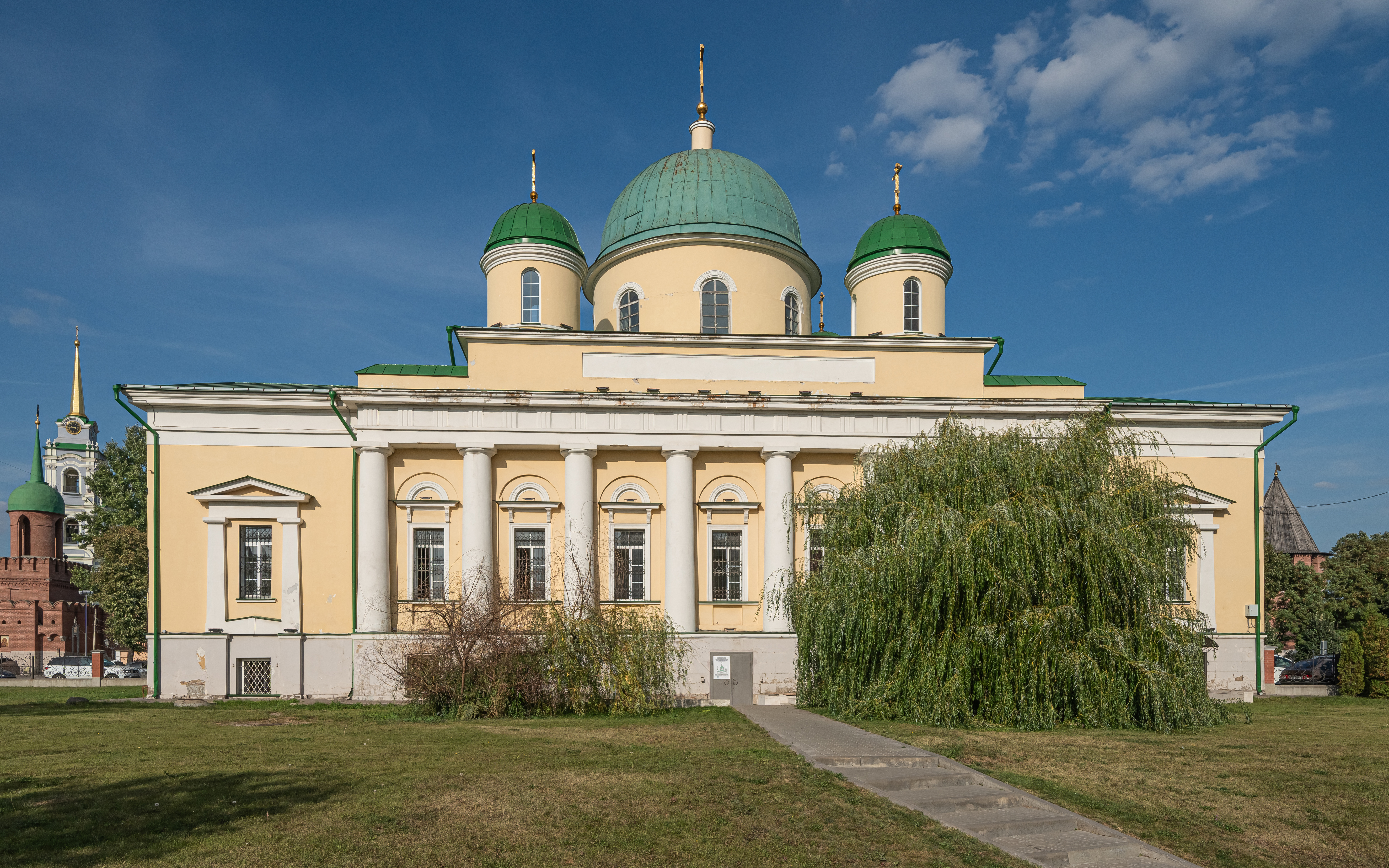 Tranfiguration Church of the former Uspensky Convent in Tula, Russia